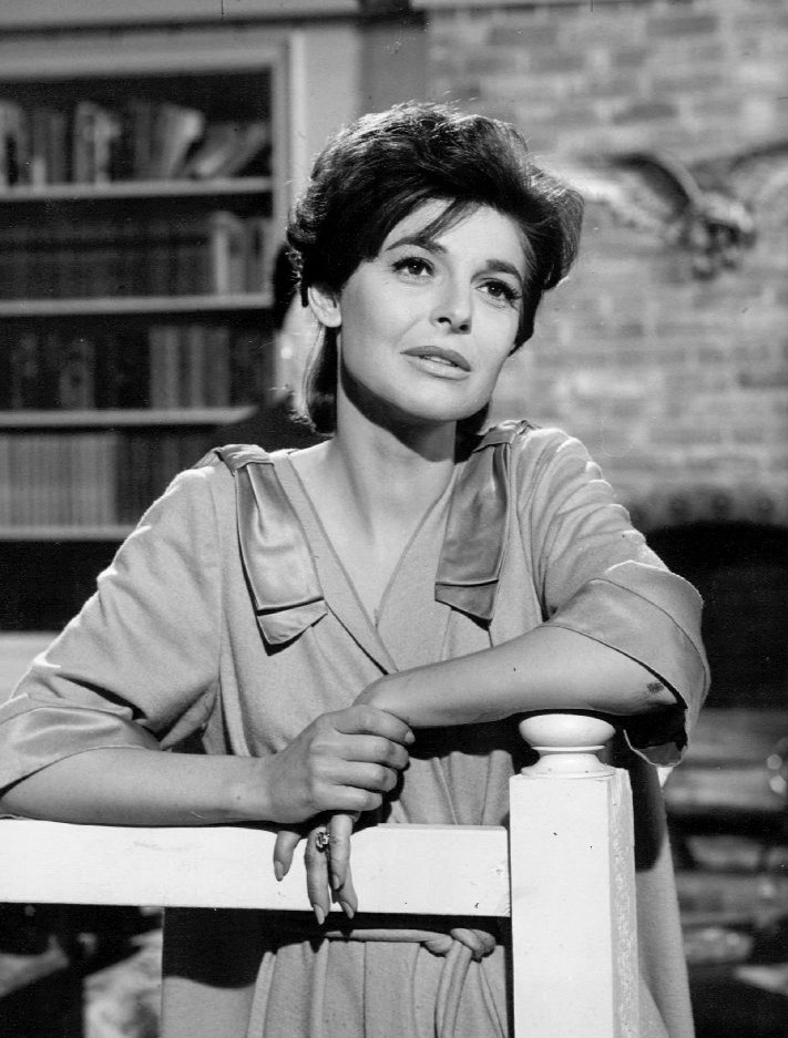 Photo of Anne Bancroft from an appearance on Bob Hope's Chrysler Theatre.